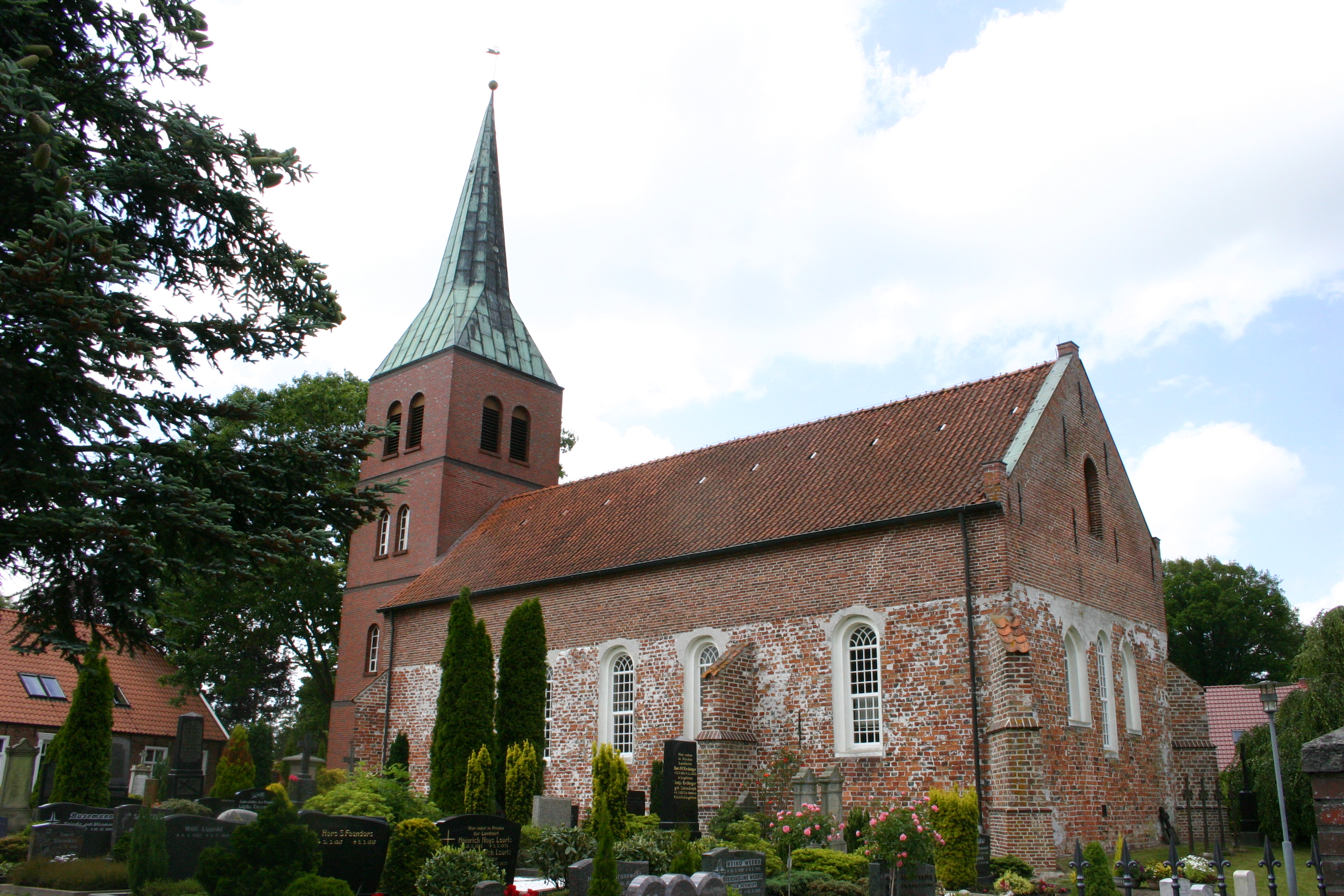 Historic church in Logabirum, district of Leer, East Frisia, Germany